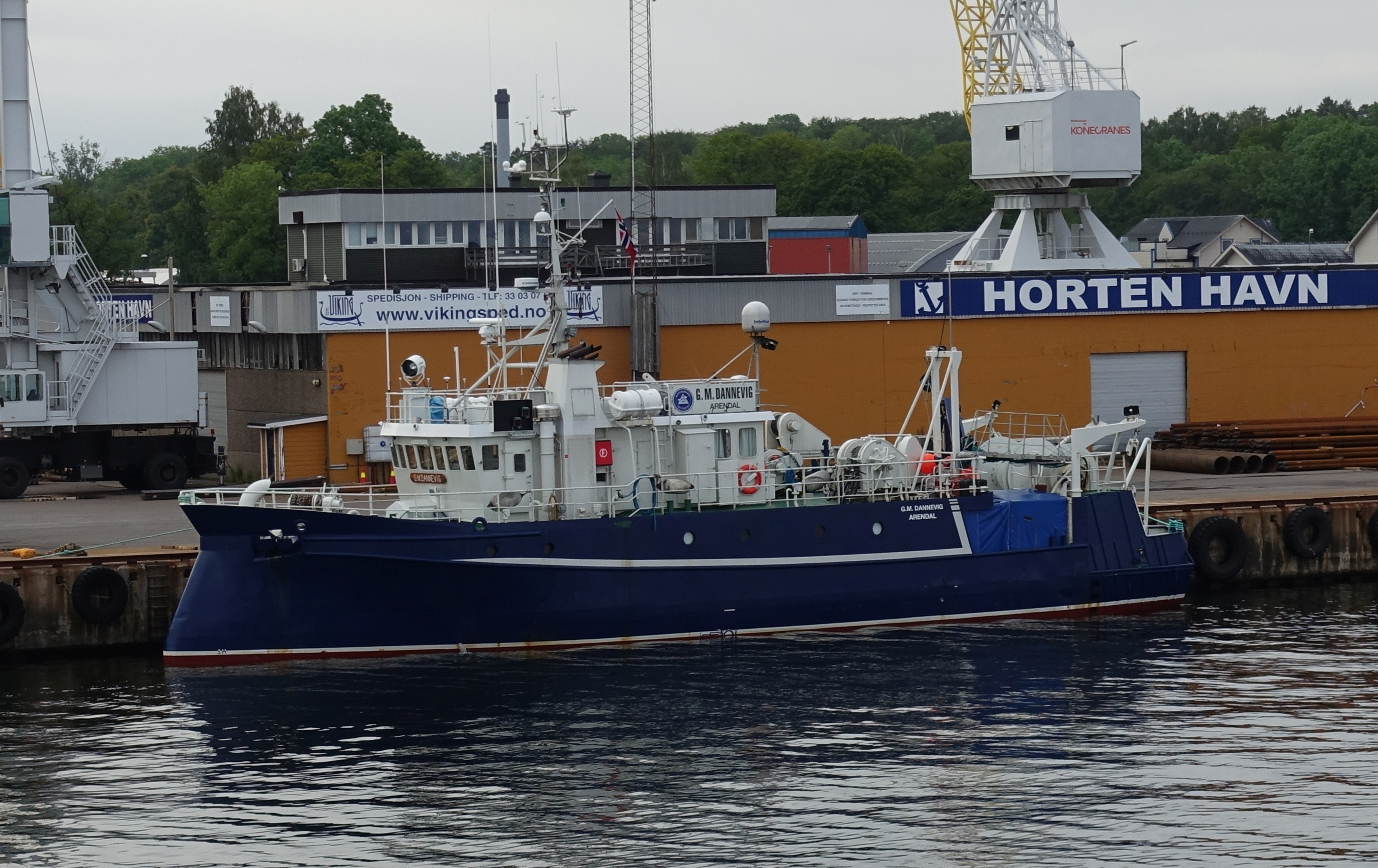 Norwegian research vessel G. M. Dannevig in Horten, Norway